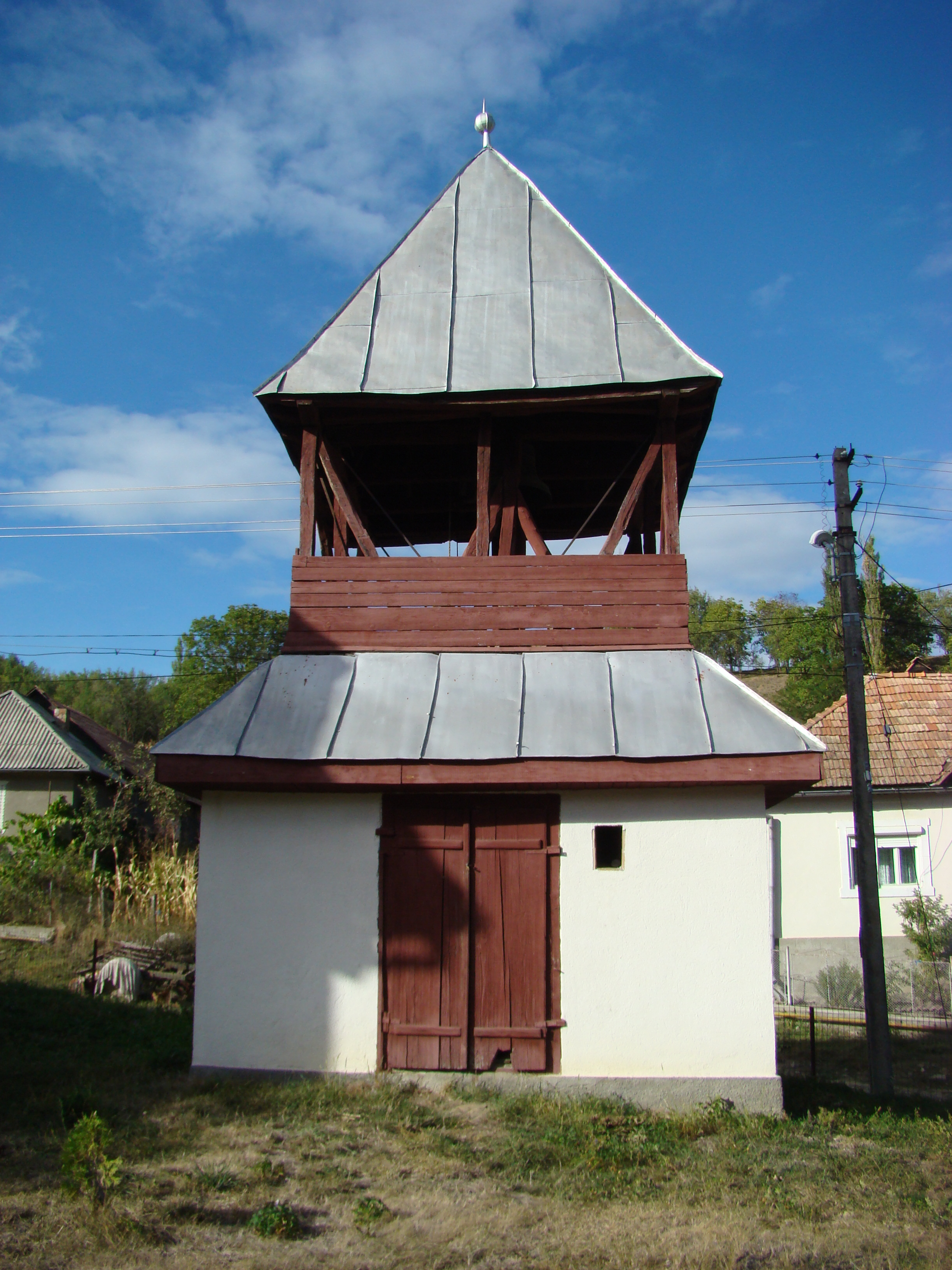 The protestant church in Vița, Bistrița-Năsăud county, Romania